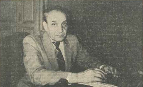 Romanian dissident Vasile Paraschiv